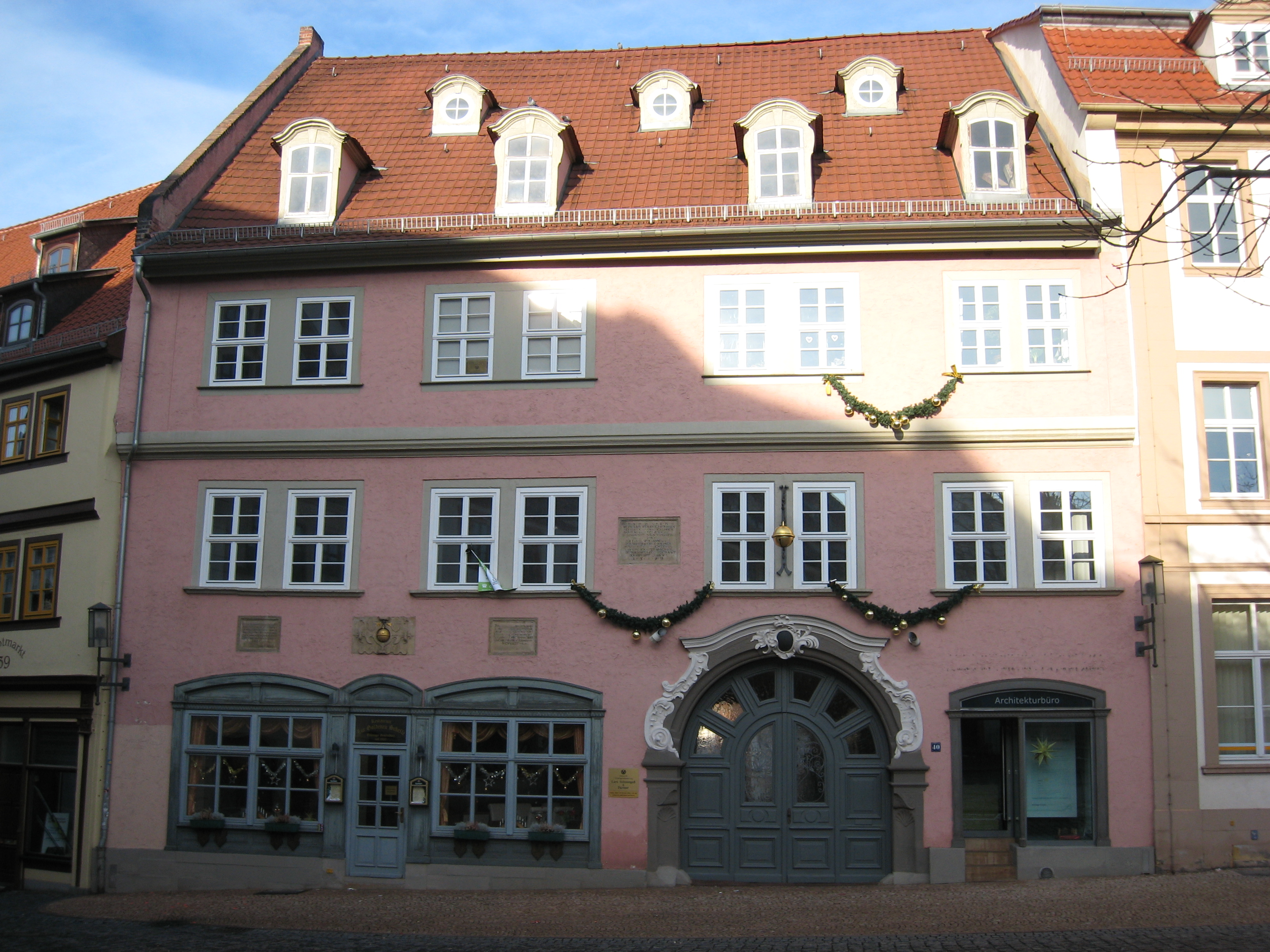 Hauptmarkt 40 Gotha